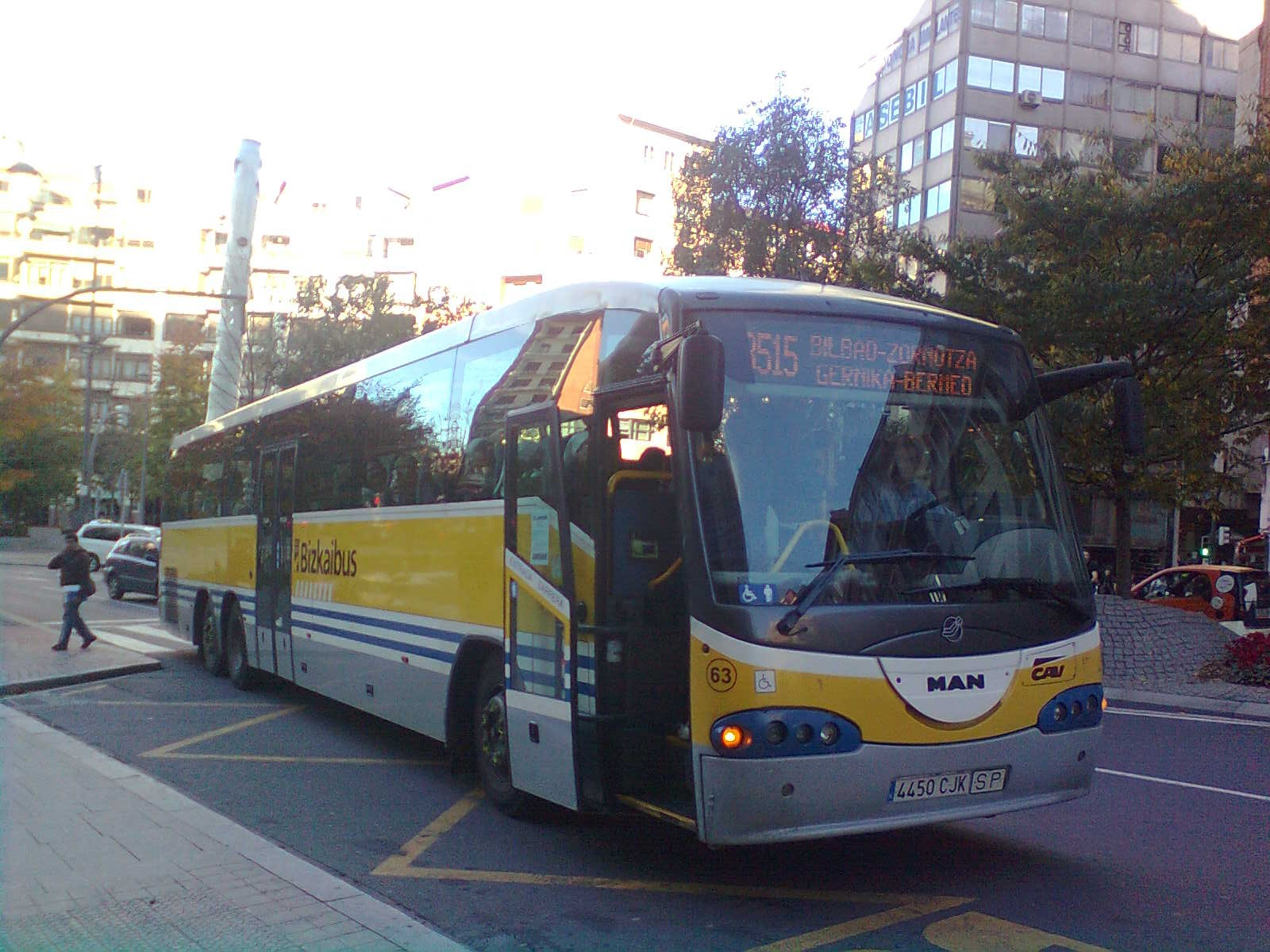 Commuter bus in Bilbao (Basque Country)